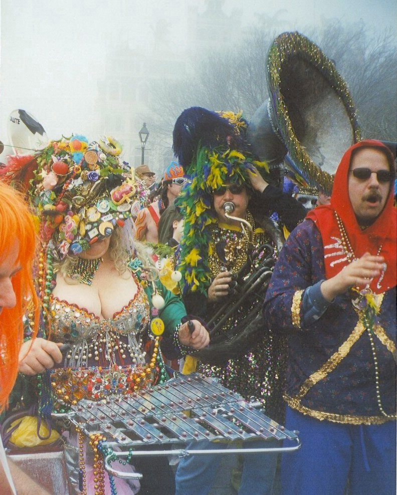 Costumed musicians in New Orleans French Quarter, on a foggy Mardi Gras afternoon, 2003. Musician playing Glockenspiel at front left, Sousaphone at back right.